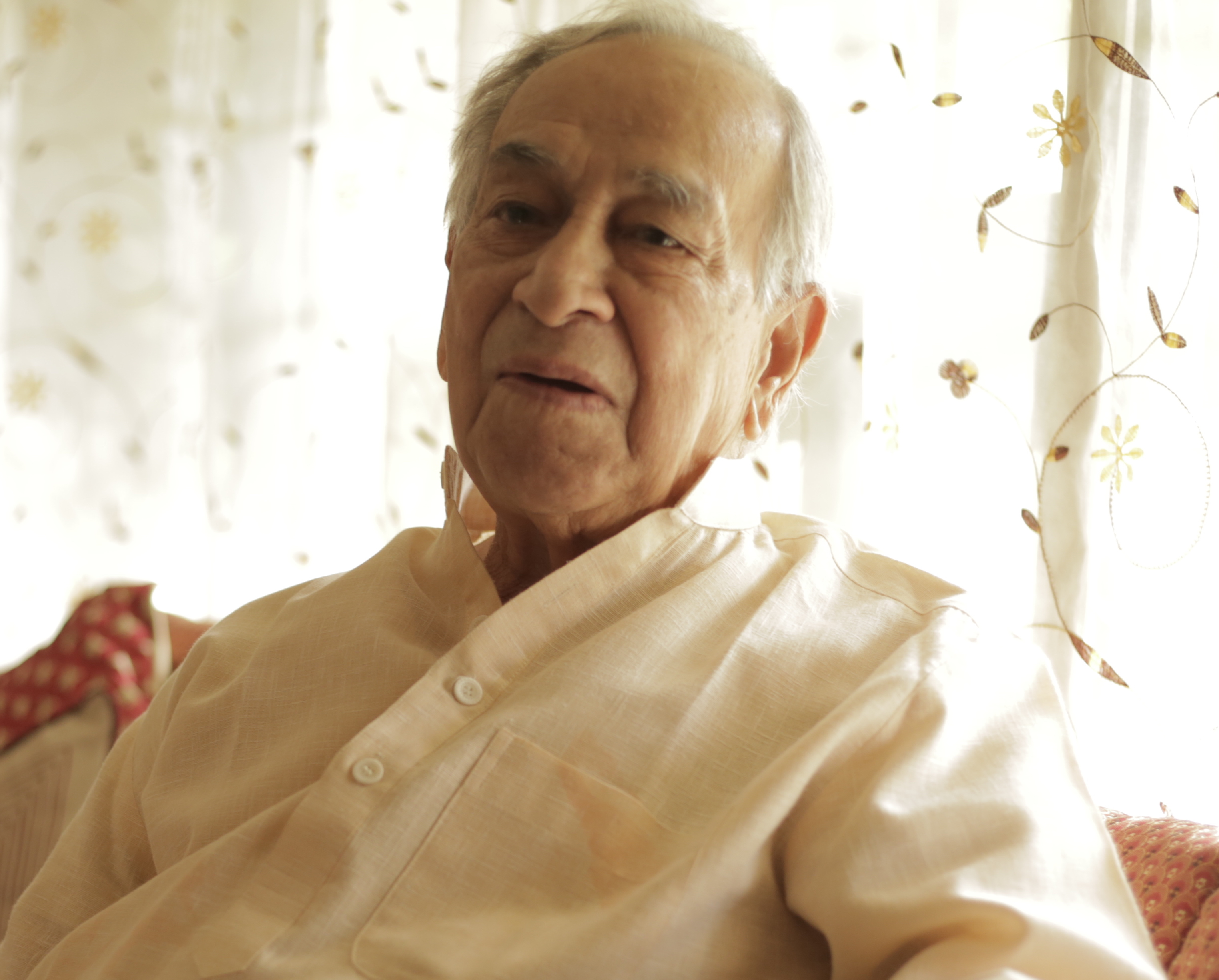 Photo of Bhai Vaidya